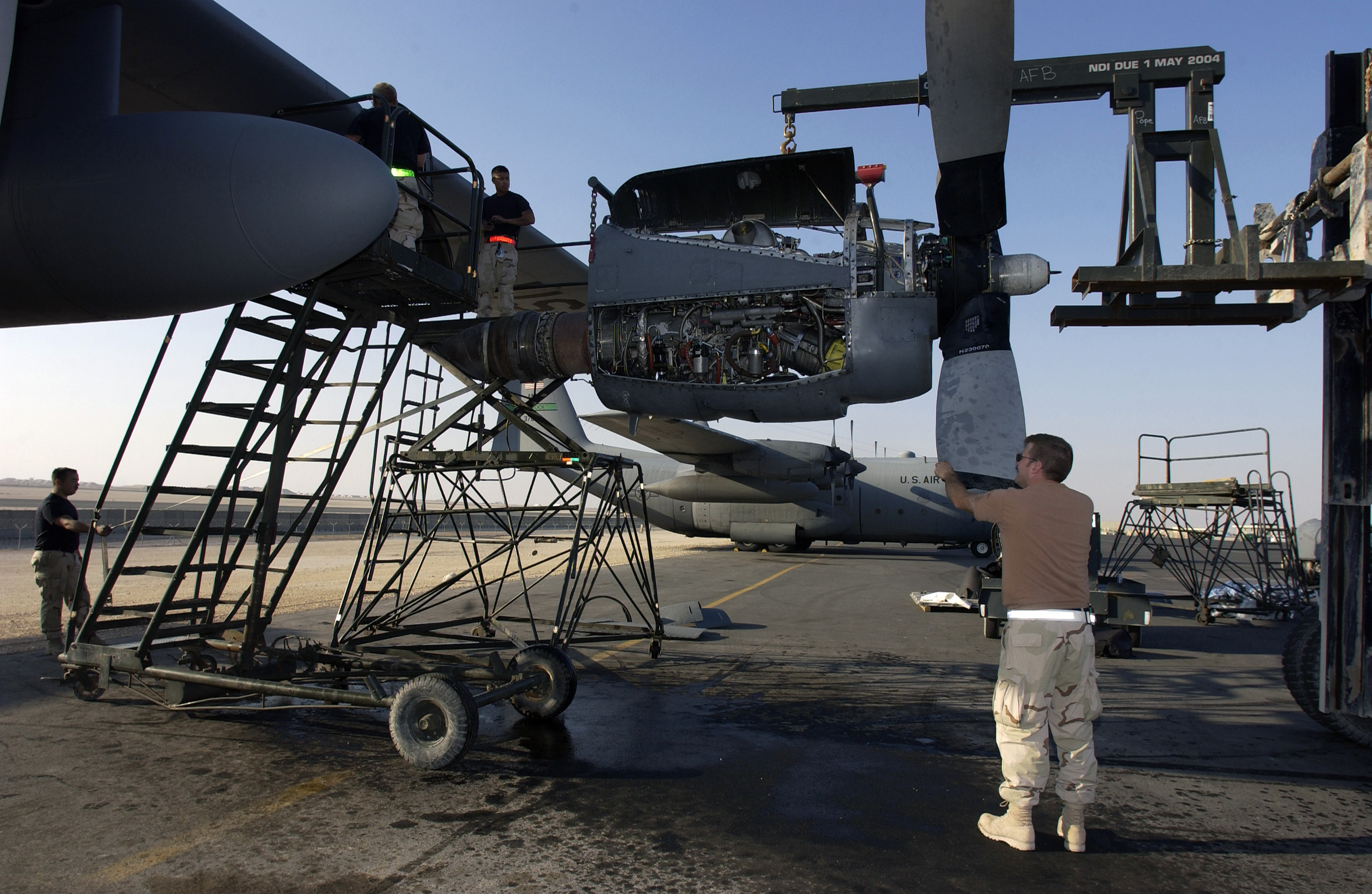 U.S. Air Force members of the 745th Expeditionary Airlift Squadron guide an Allison T56 turboprop engine into place as they remount it onto a Lockheed C-130H Hercules aircraft in Iraq, on 12 December 2003.